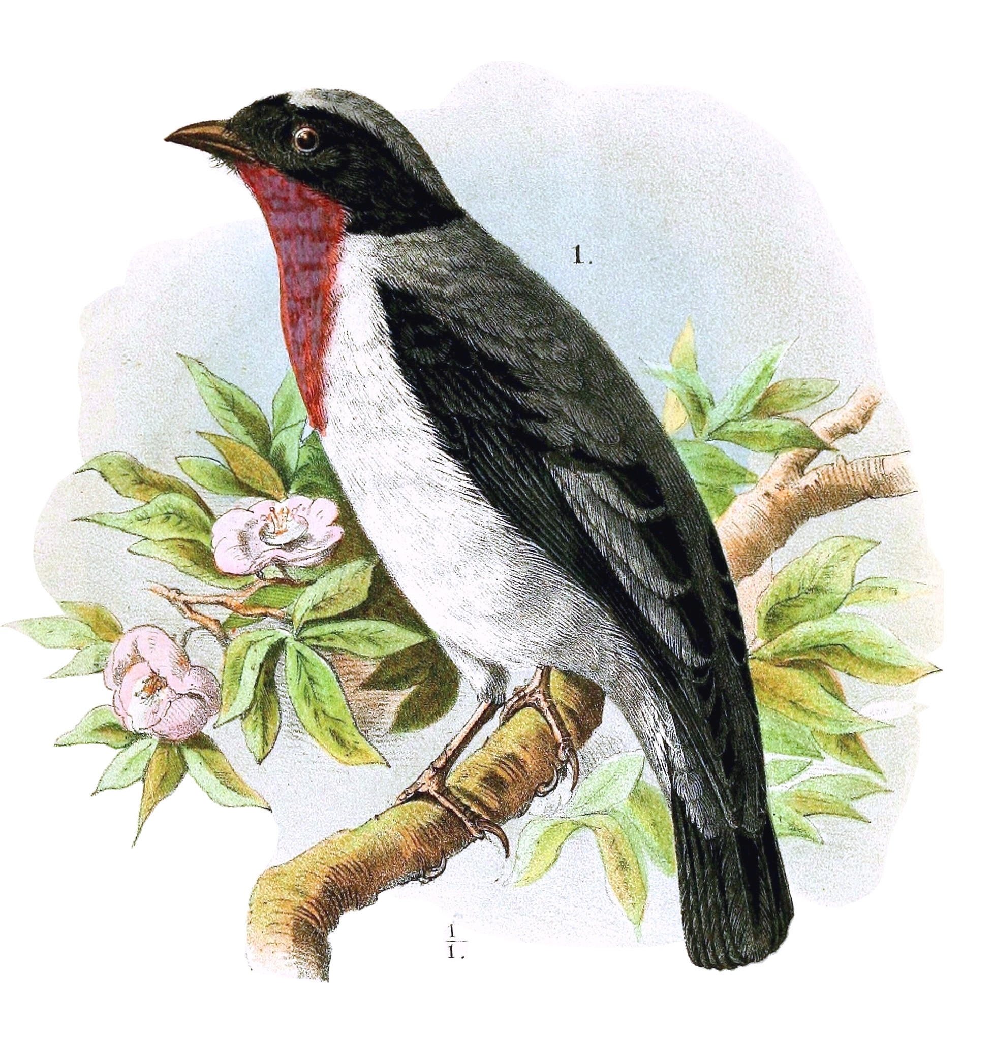 « Nemosia rourei » = Nemosia rourei (Cherry-throated tanager)